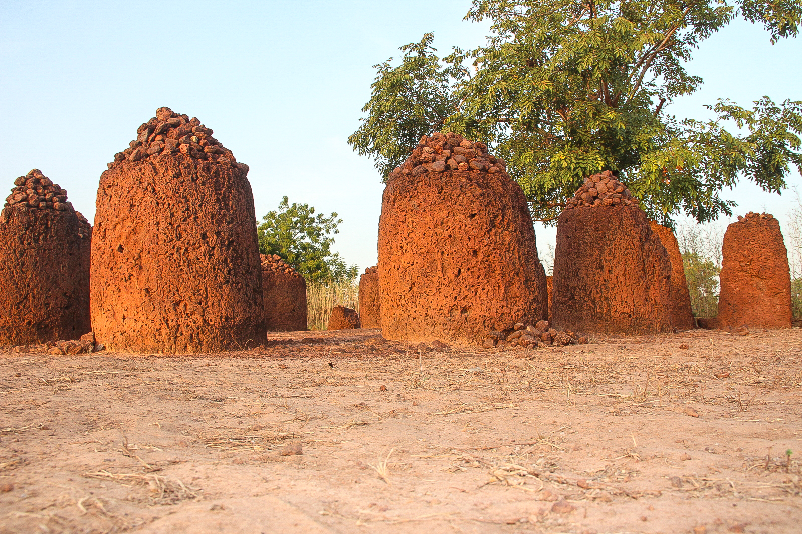 At the stone circles in Wassu Gambia are many heavy stones used